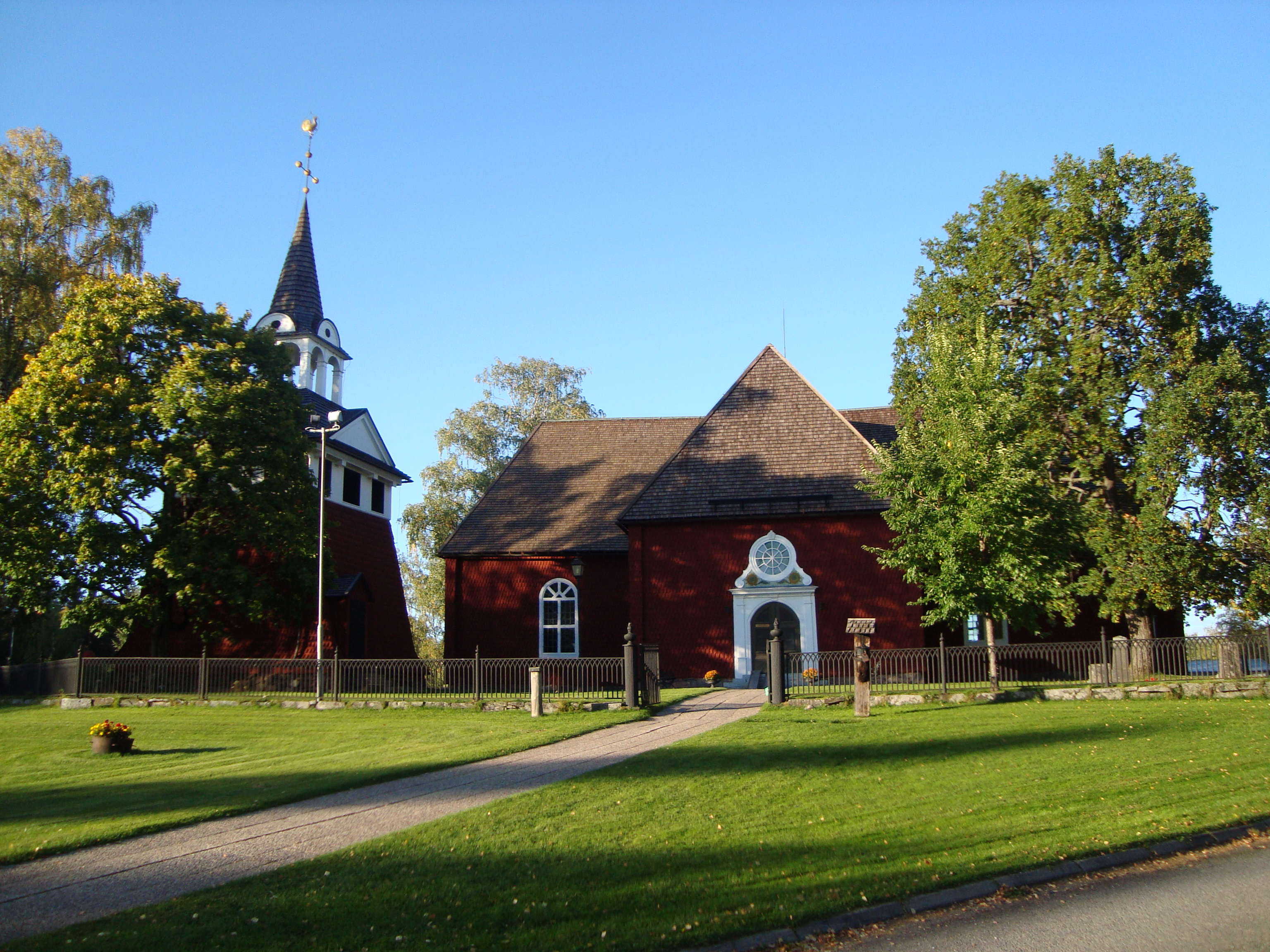 Church and bell tower of Sundborn, Sweden